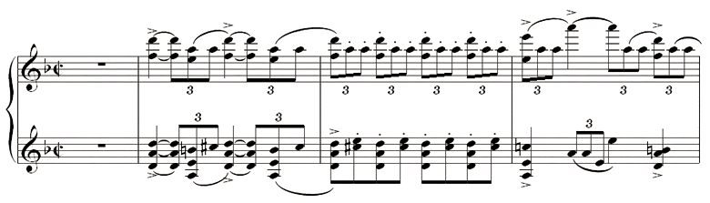 Rachmaninov_pianoconcerto3_theme_III_finale